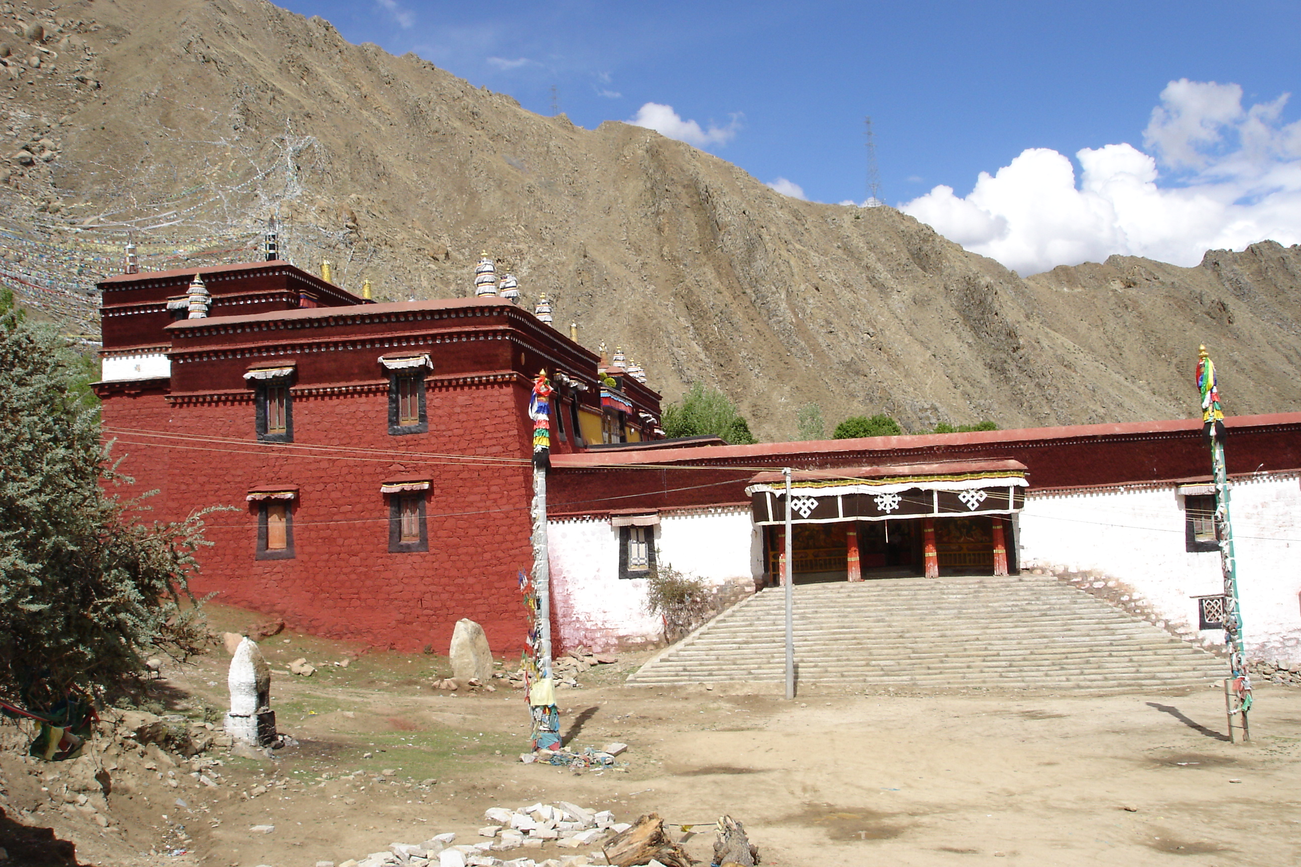 Entry into the Nechung monastery (Tibet Autonomous Region, People's Republic of China).